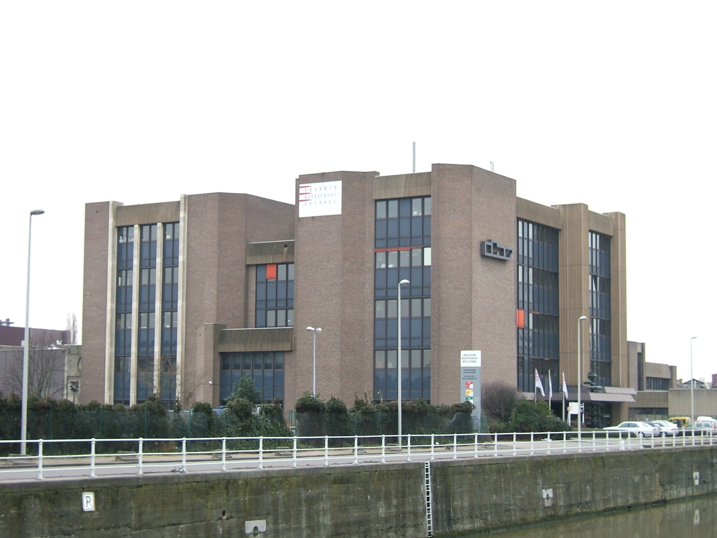 The main building of the Erasmus Hogeschool Brussel, along the canal in Anderlecht. This building houses the central administration and the Department of Industrial Sciences and Technology. The letters IHR on the facade stand for Industriële Hogeschool van het Rijk (State Higher Institute of Industry), the former name of the latter department before its integration in the Erasmushogeschool. (photo by LHOON)